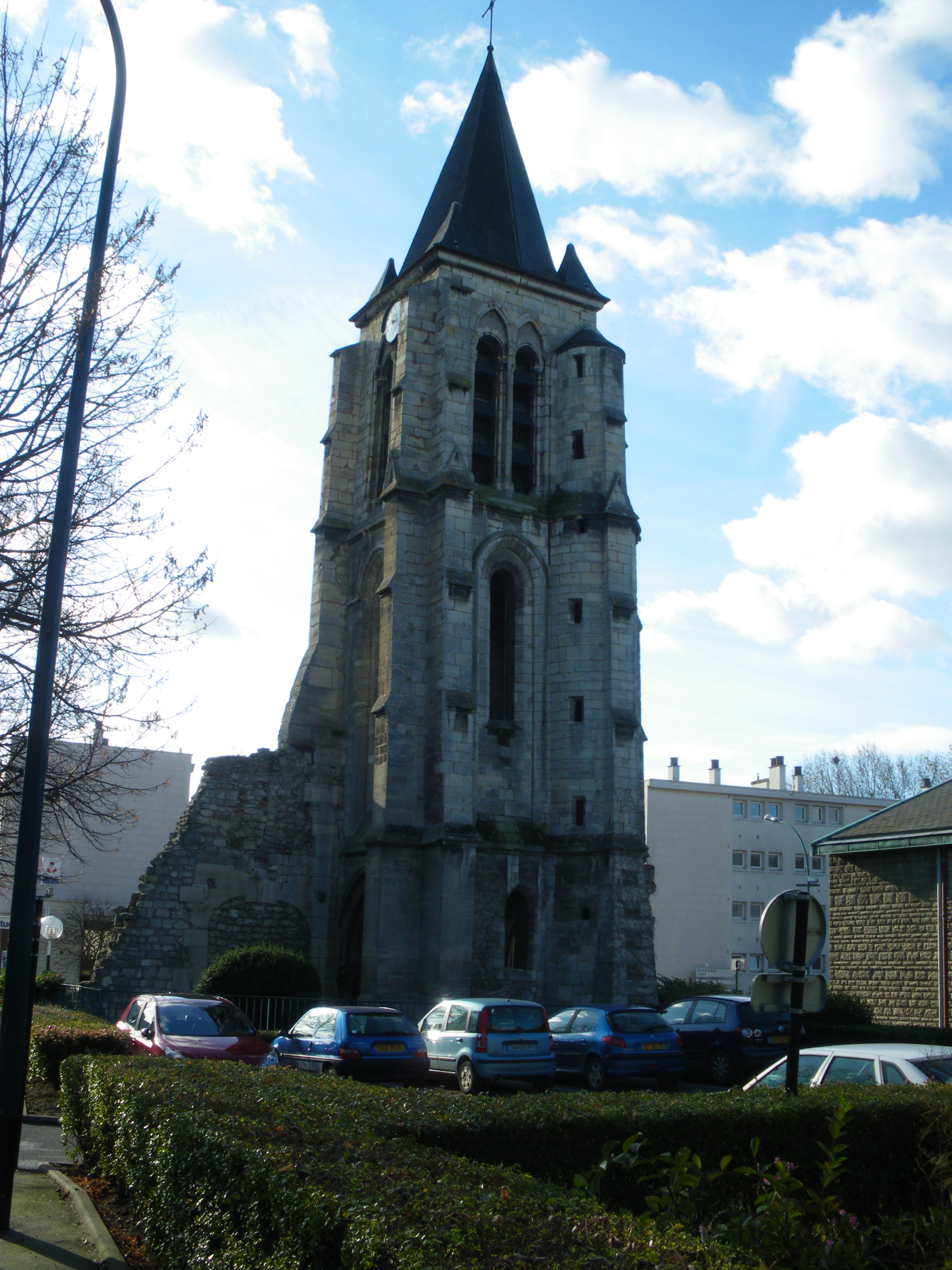 steeple of Massy's Church, France